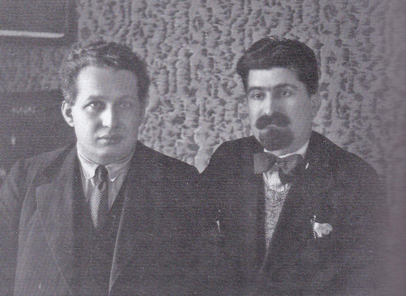 Petar Shandanov and Petso Traykov